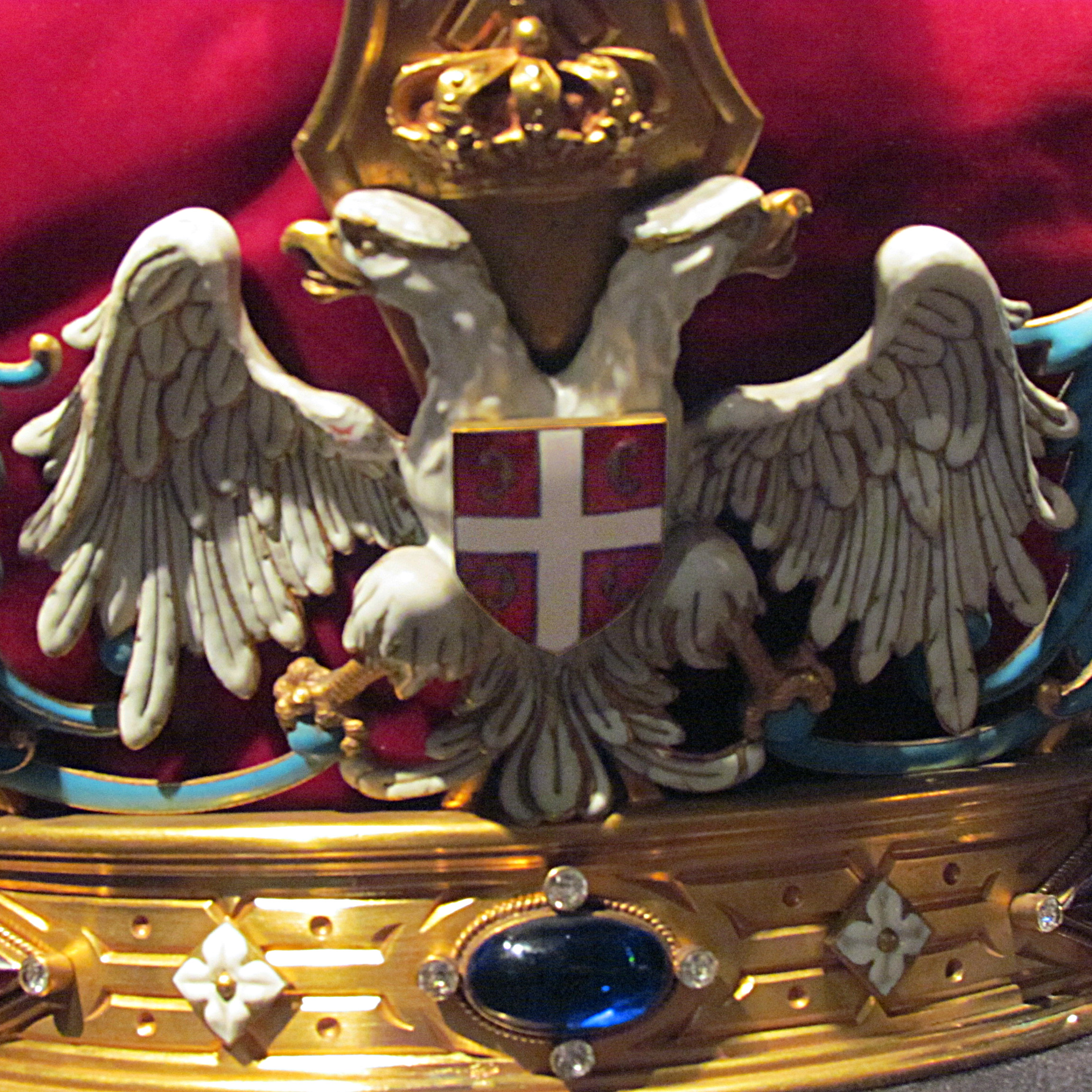 Two-Headed Eagle from Karađorđević crown.